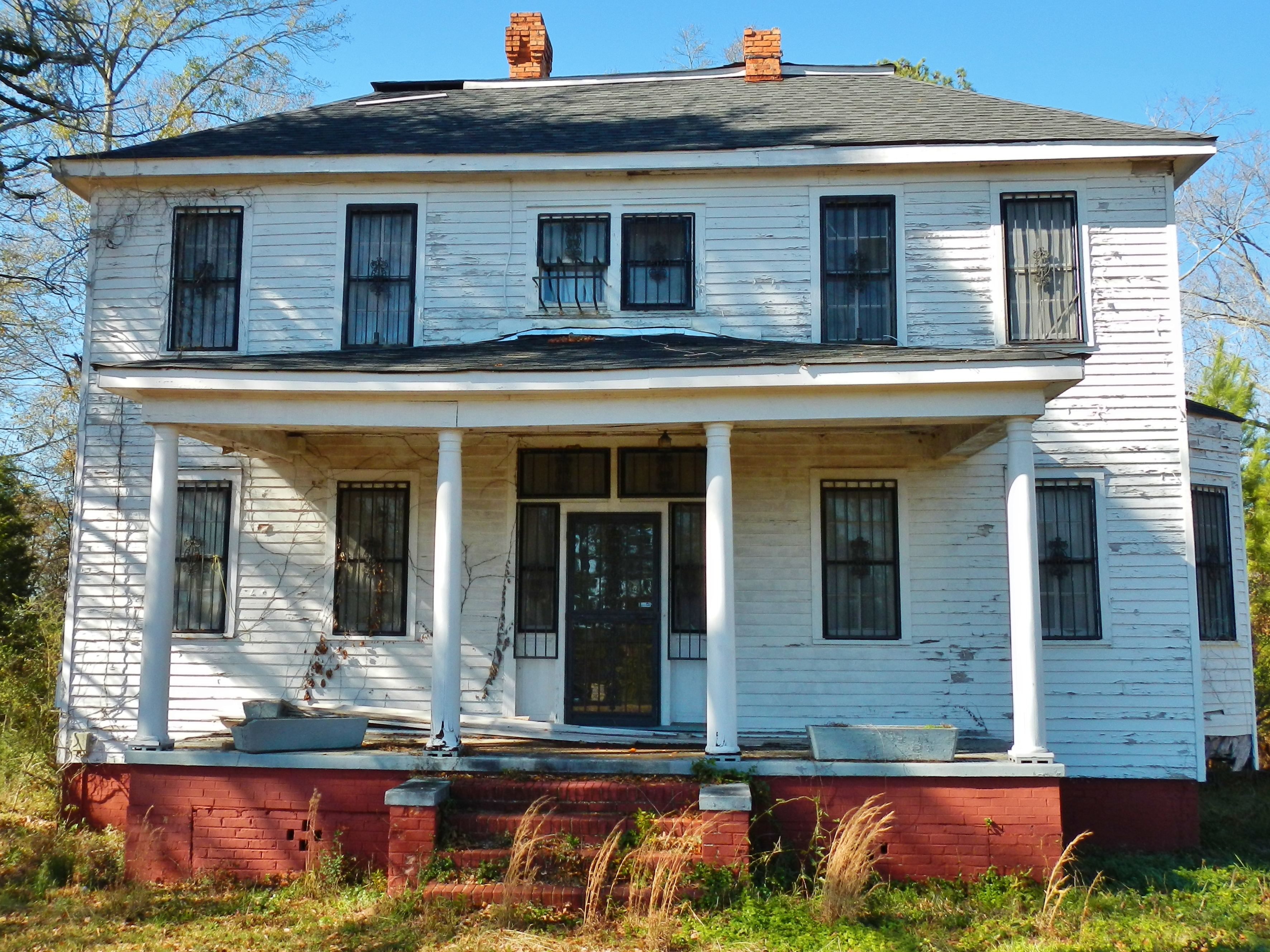 This is a photograph of the principals house on the grounds of Calhoun High School, formerly Calhoun Colored School.